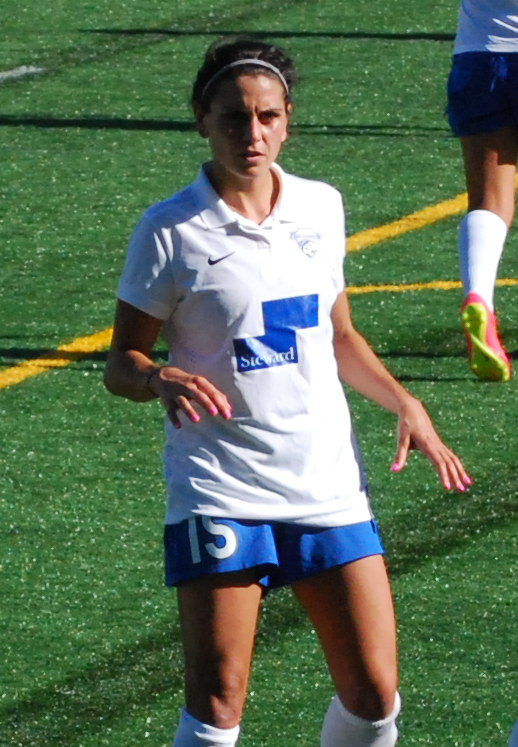 Seattle Reign FC vs Boston Breakers Memorial Stadium, Seattle Center Seattle, WA July 6, 2014